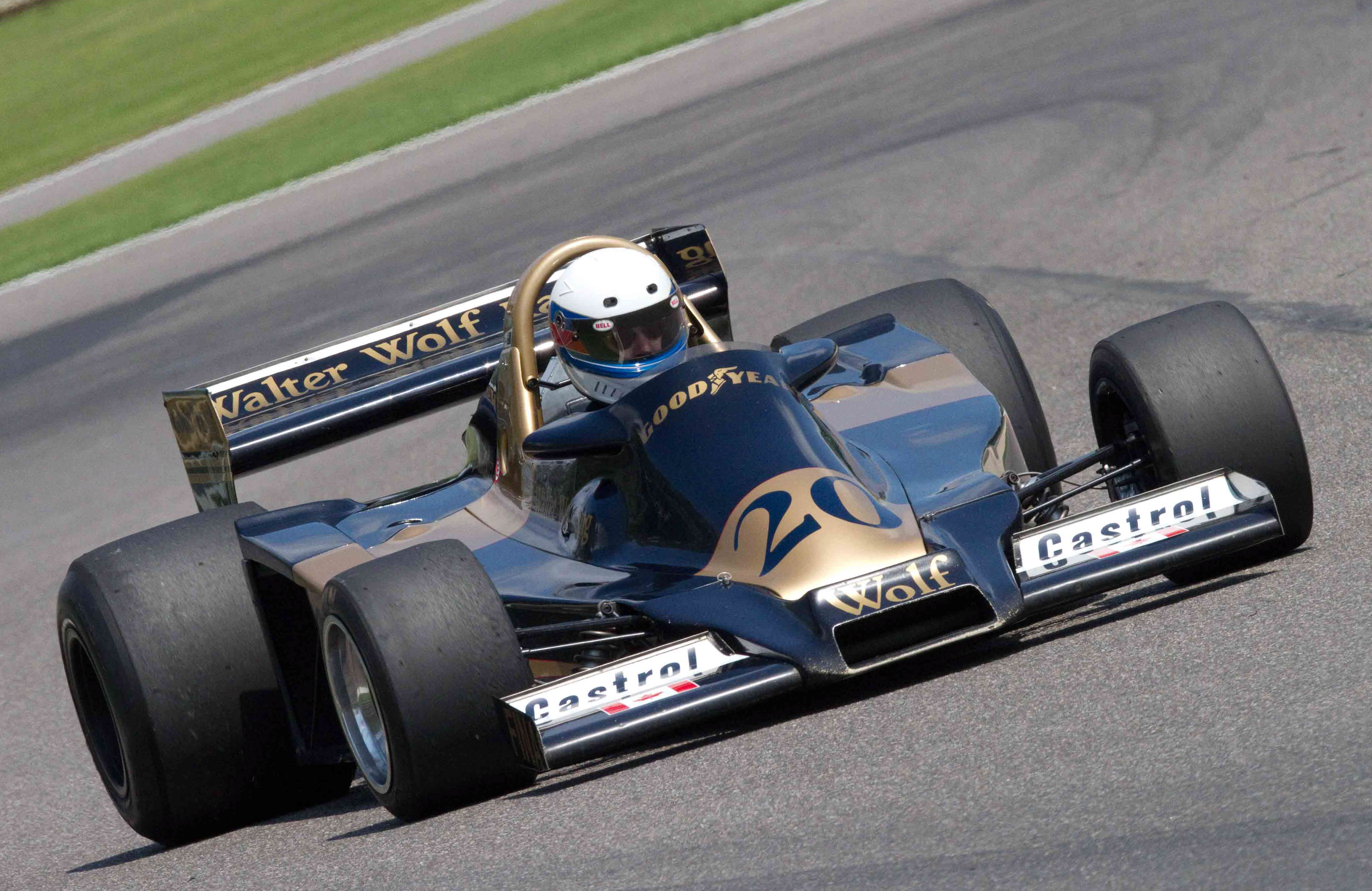 Jody Scheckter`s Wolf WR1 at Barber Motorsports Park, 2010